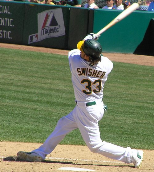 Photo by Justin Lafferty 00:19, 7 December 2006 . . Jlaff . . 500×557 (80,761 bytes)